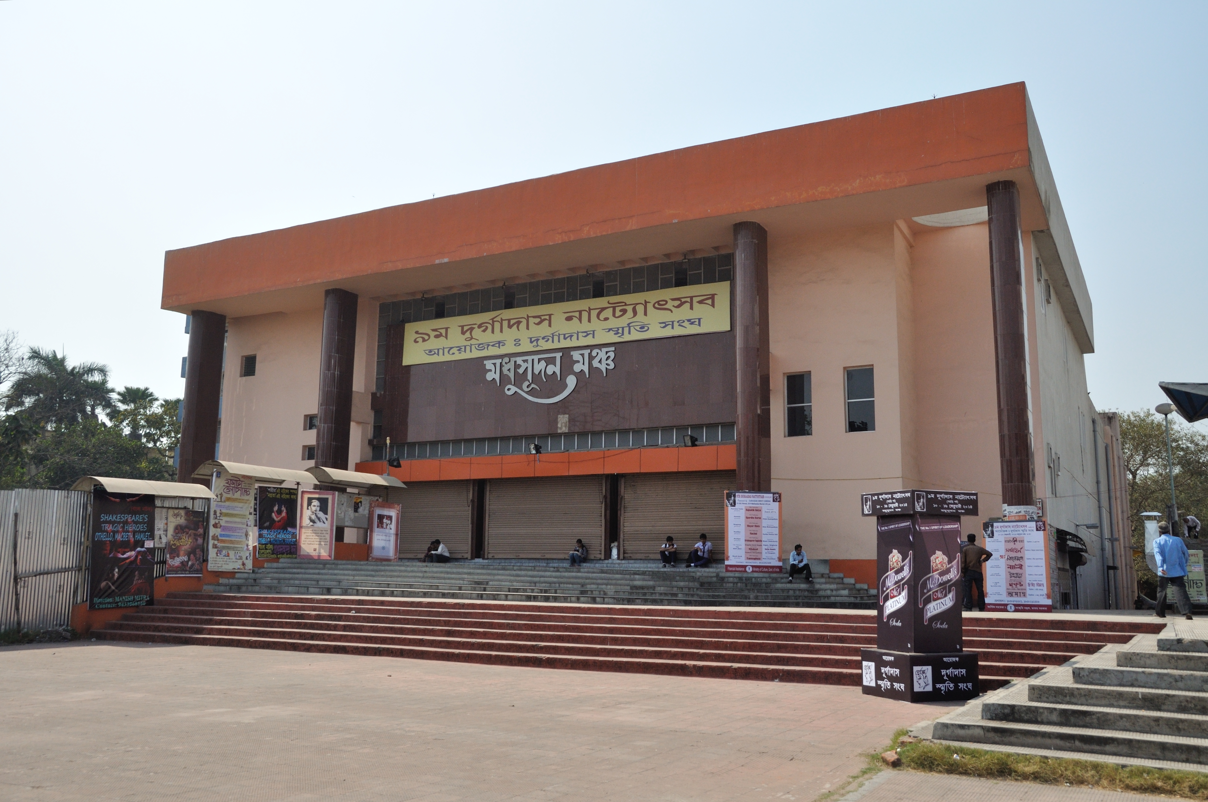 Photographed in Kolkata.